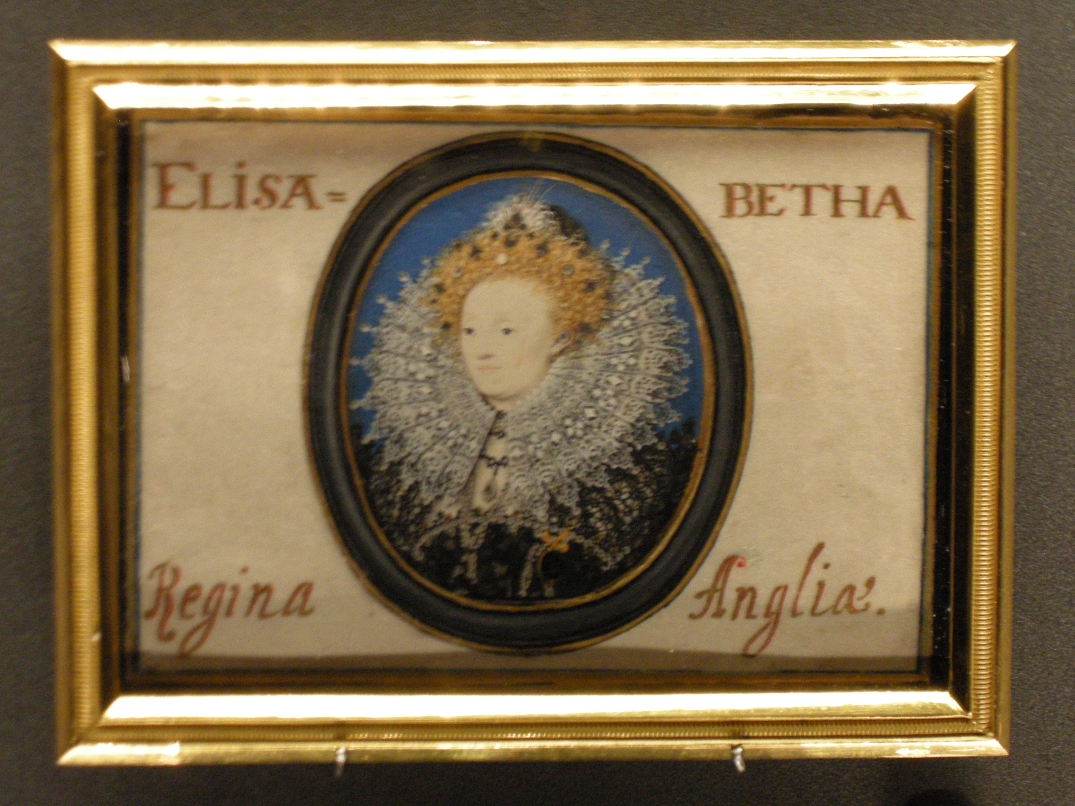 Nicholas Hilliard 1547-1619 Portrait of Elizabeth I About 1586-7 Watercolour on vellum, stuck to pasteboard; set into a vellum mount in the 17th century Inscribed on the mount in Latin 'Elizabeth Queen of England' Museum no. P.23-1975 Bequeathed by Mrs Doris Herschorn Elizabeth was now about 53.As she grew older poets and painters increasingly emphasised her supposedly divine power. Late portraits of the queen were rarely simple likenesses. Here, the crescent moon jewel in her hair symbolises the goddess Diana. Wikipedia Loves Art at the Victoria and Albert Museum This photo of item # P.23-1975 at the Victoria and Albert Museum was contributed under the team name "VeronikaB" as part of the Wikipedia Loves Art project in February 2009. Victoria and Albert Museum The original photograph on Flickr was taken by VeronikaB—please add a comment to the original Flickr page whenever a use has been made on Wikipedia or another project. Project galleries on Flickr: this institution, this team